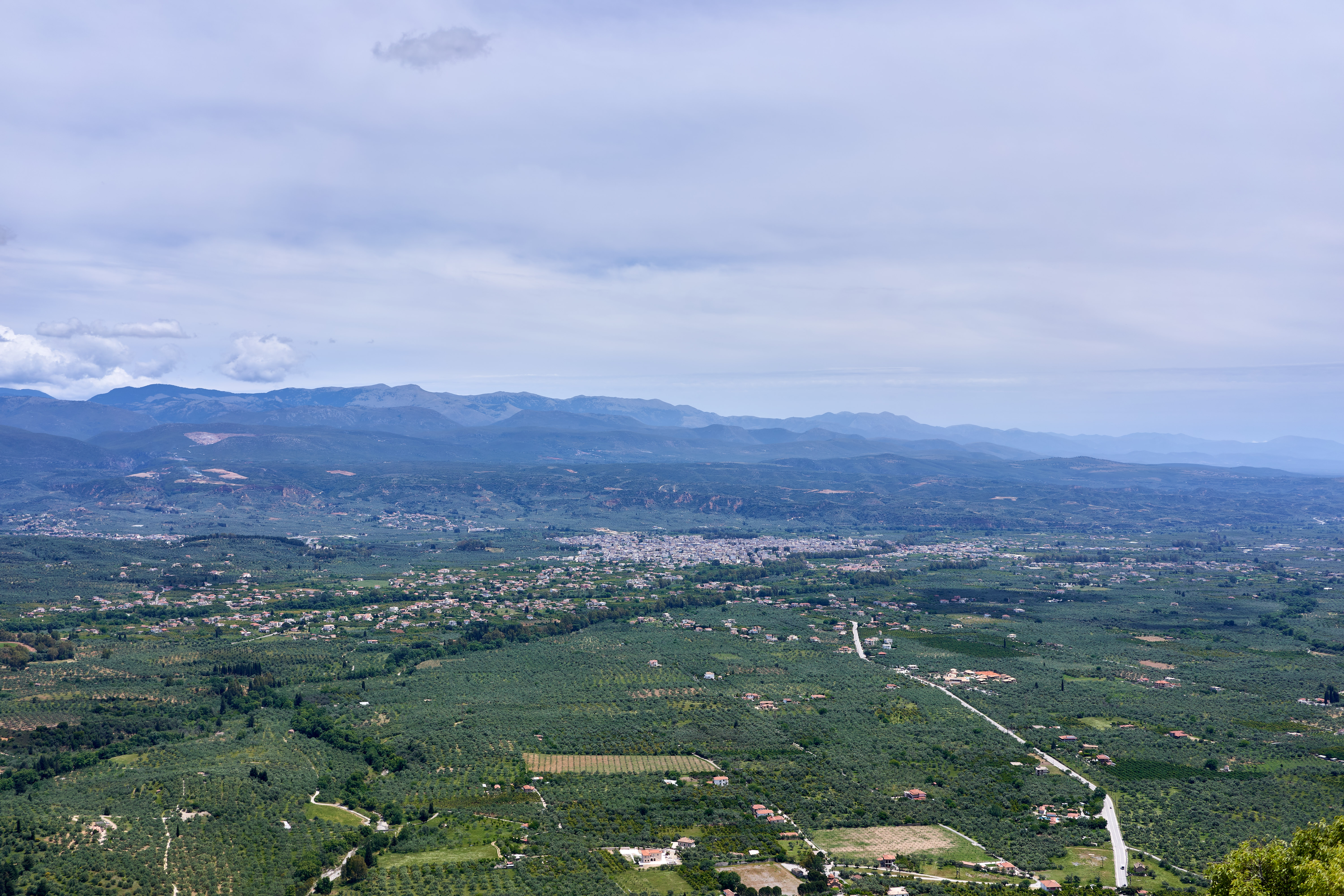 View of Sparta from the Castle of Mystras. In the distance Mount Parnon. Laconia, Greece.